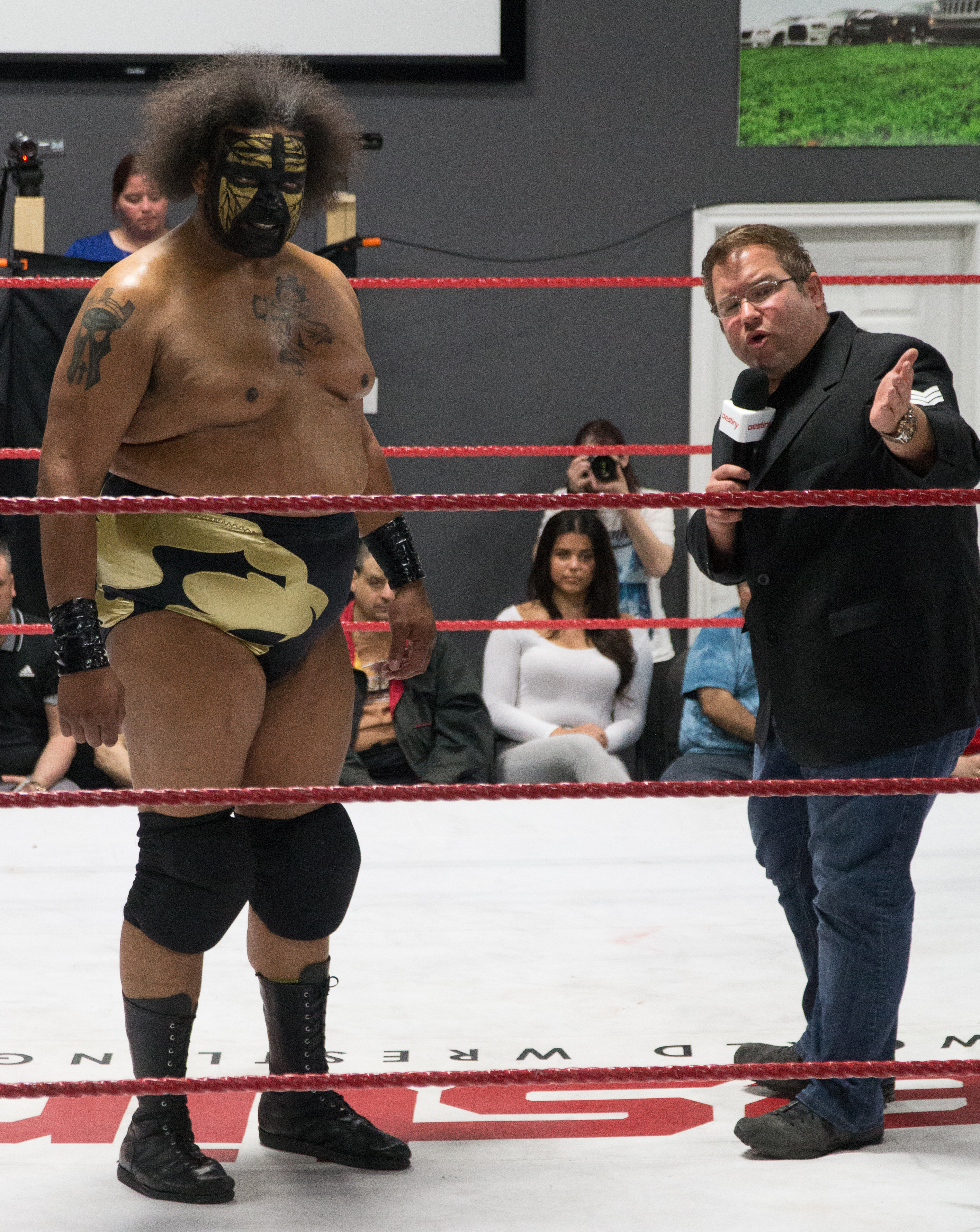 Manager Scott D'Amore (right) speaking to fans with wrestler Kongo Kong looking on, at a Destiny Wrestling show in Mississauga, ON